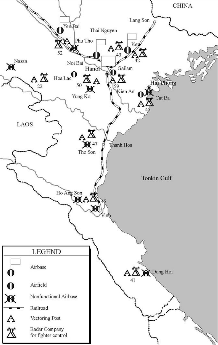 North Vietnamese Air Force disposition (Map 4) prior to and in course of Operation Linebacker II.